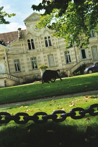 Château Maucaillou